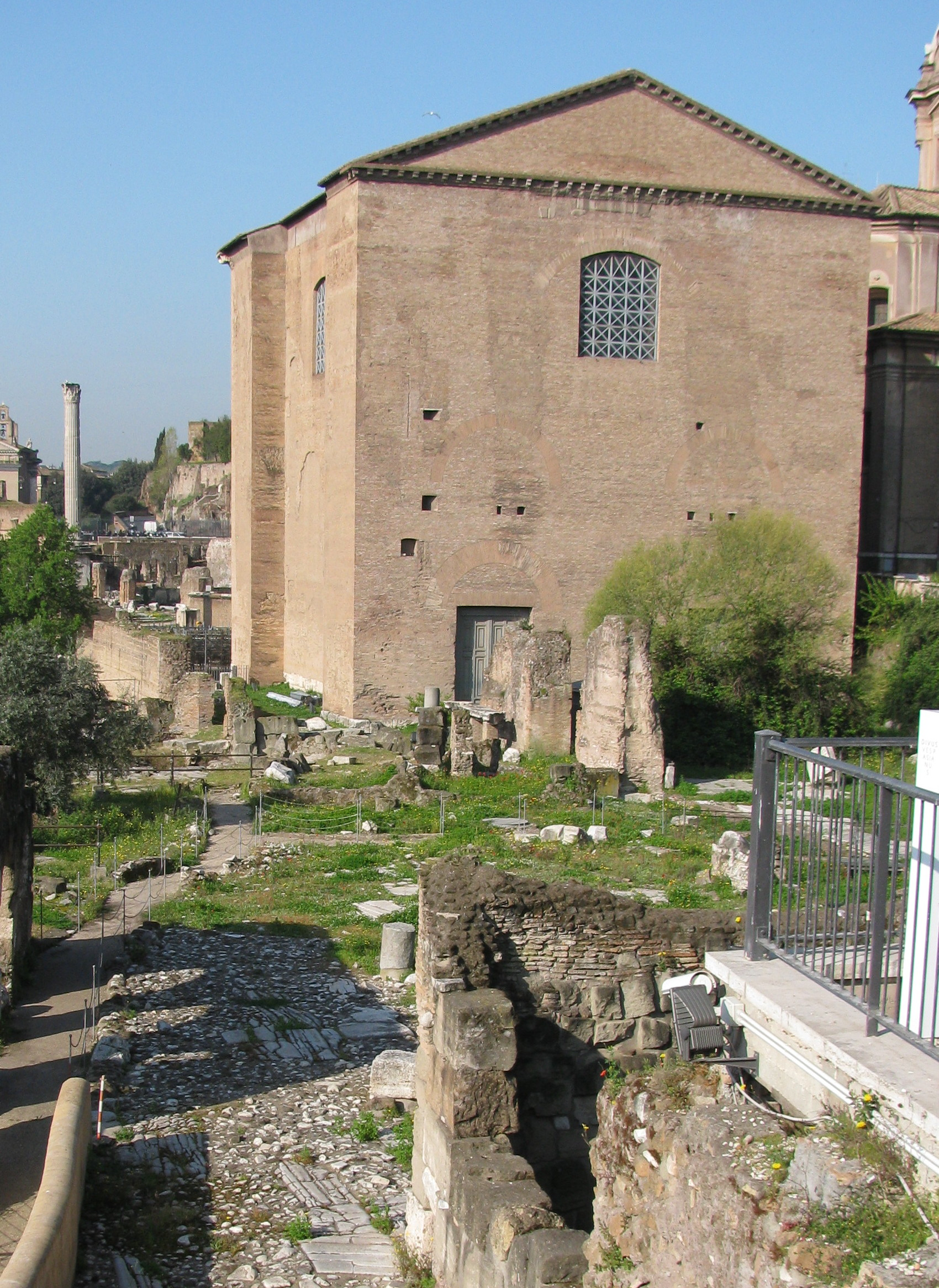 Back side of Curia Julia, with via Argiletum (covererd by a medieval street)